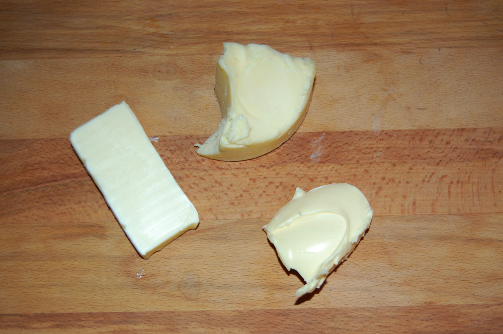 butter, clarified butter (ghee), and margarine